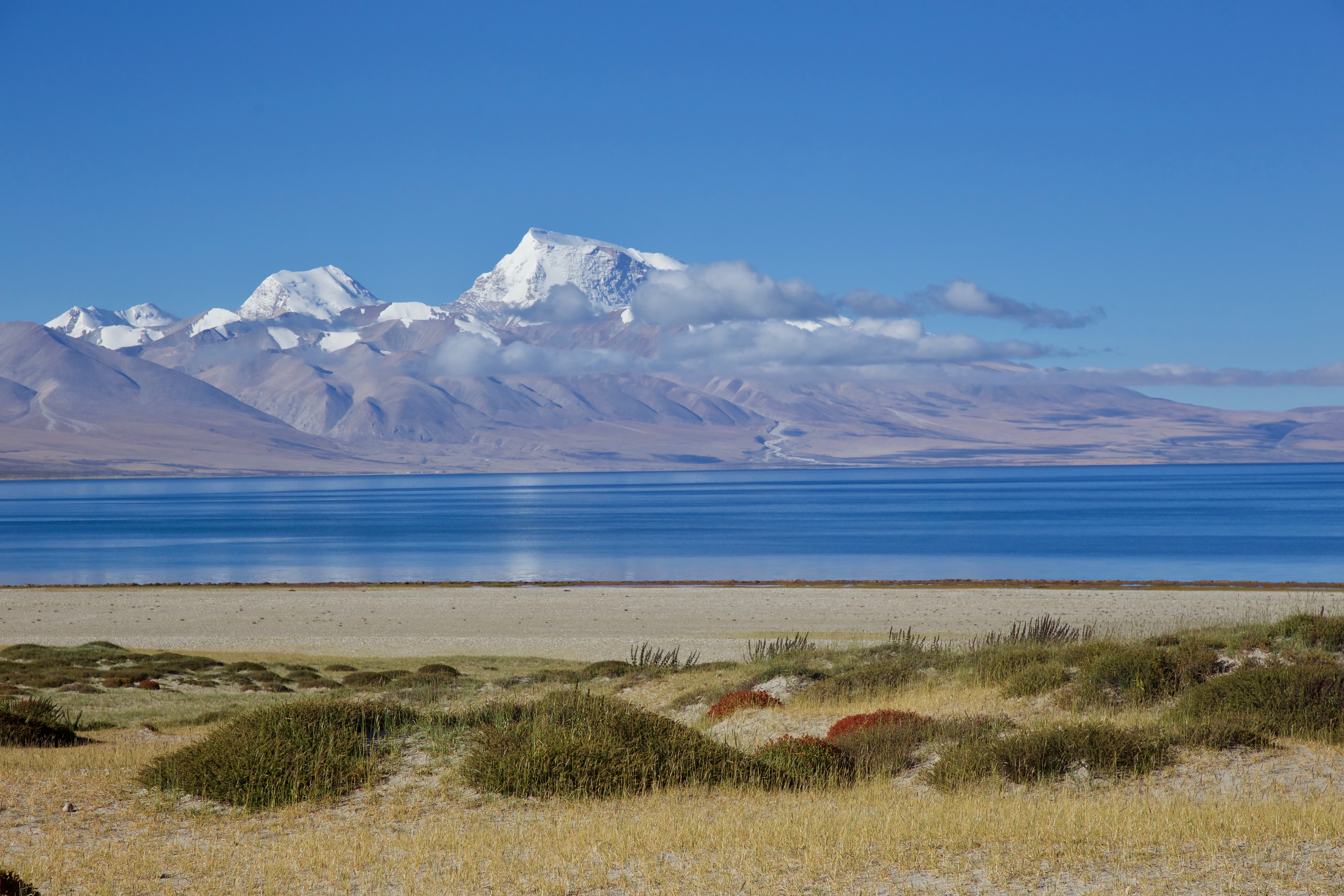 Gurla Mandhata and Lake Manasarovar near Selung Gompa